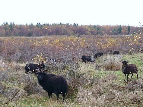 Soay Sheep, Culloden Moor.